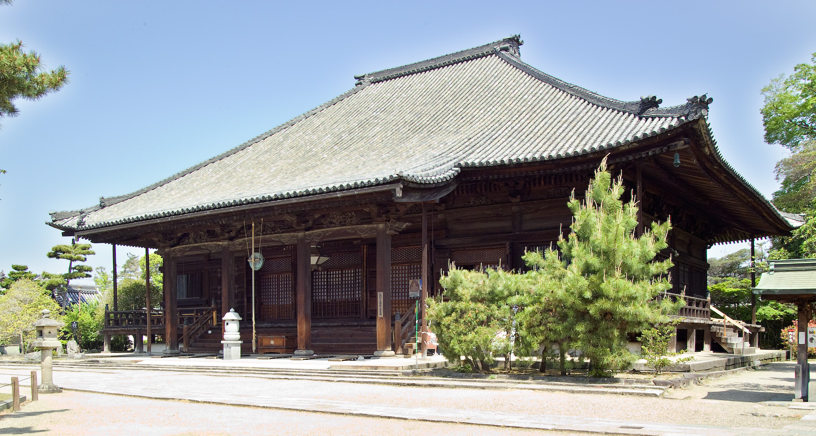 The building in this photograph is the Main Hall or hondō at Saidai-ji, a Buddhist temple in Nara, Japan.